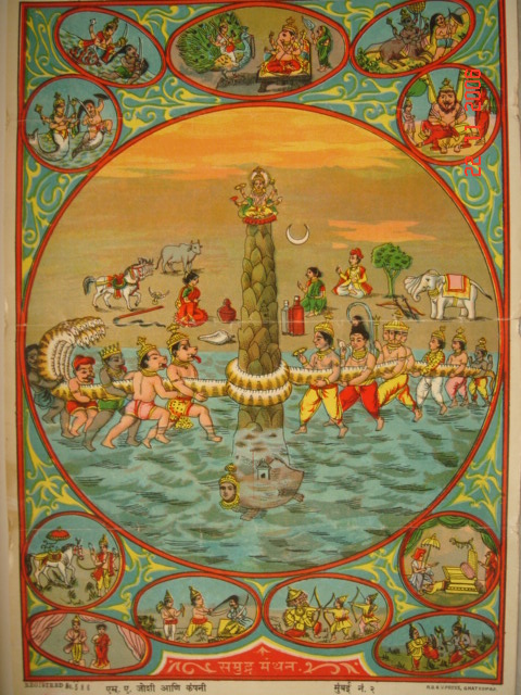 Samudra manthan